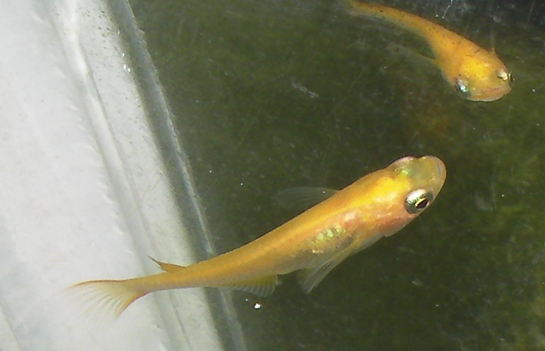 Himedaka, Japanese rice fish (Oryzias latipes), also known as Japanese killifish. Selective breeding.